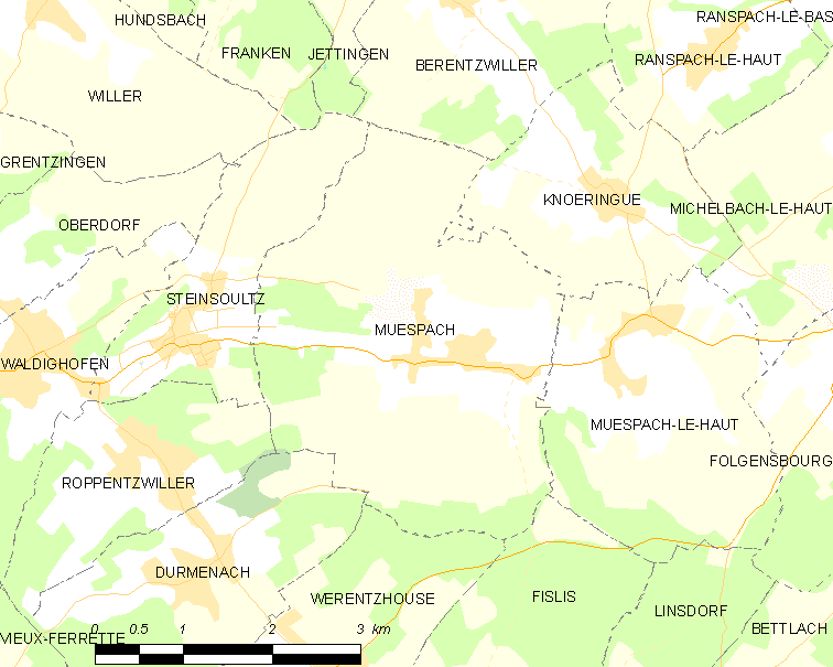 Map of French municipality